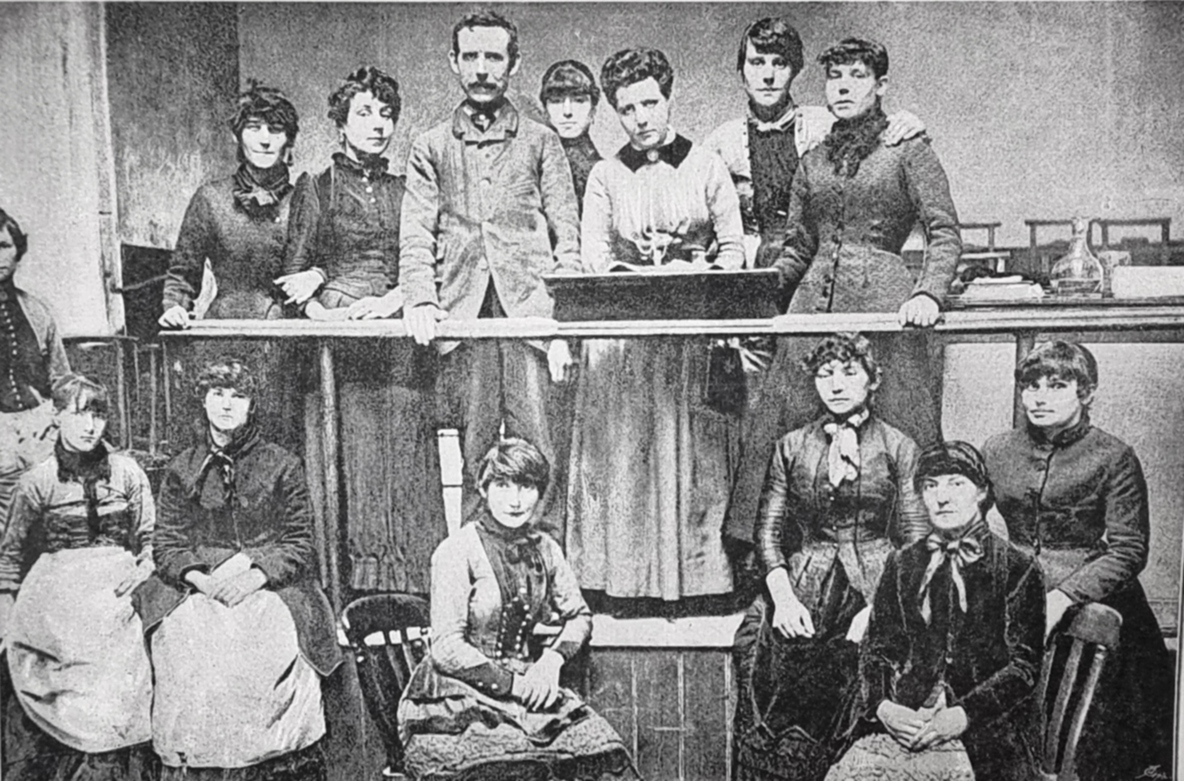 Herbert Burrows and Annie Besant, together with Matchgirls Strike Committee in 1888